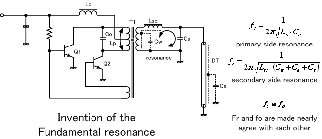 Inverter Circuit for the CCFL